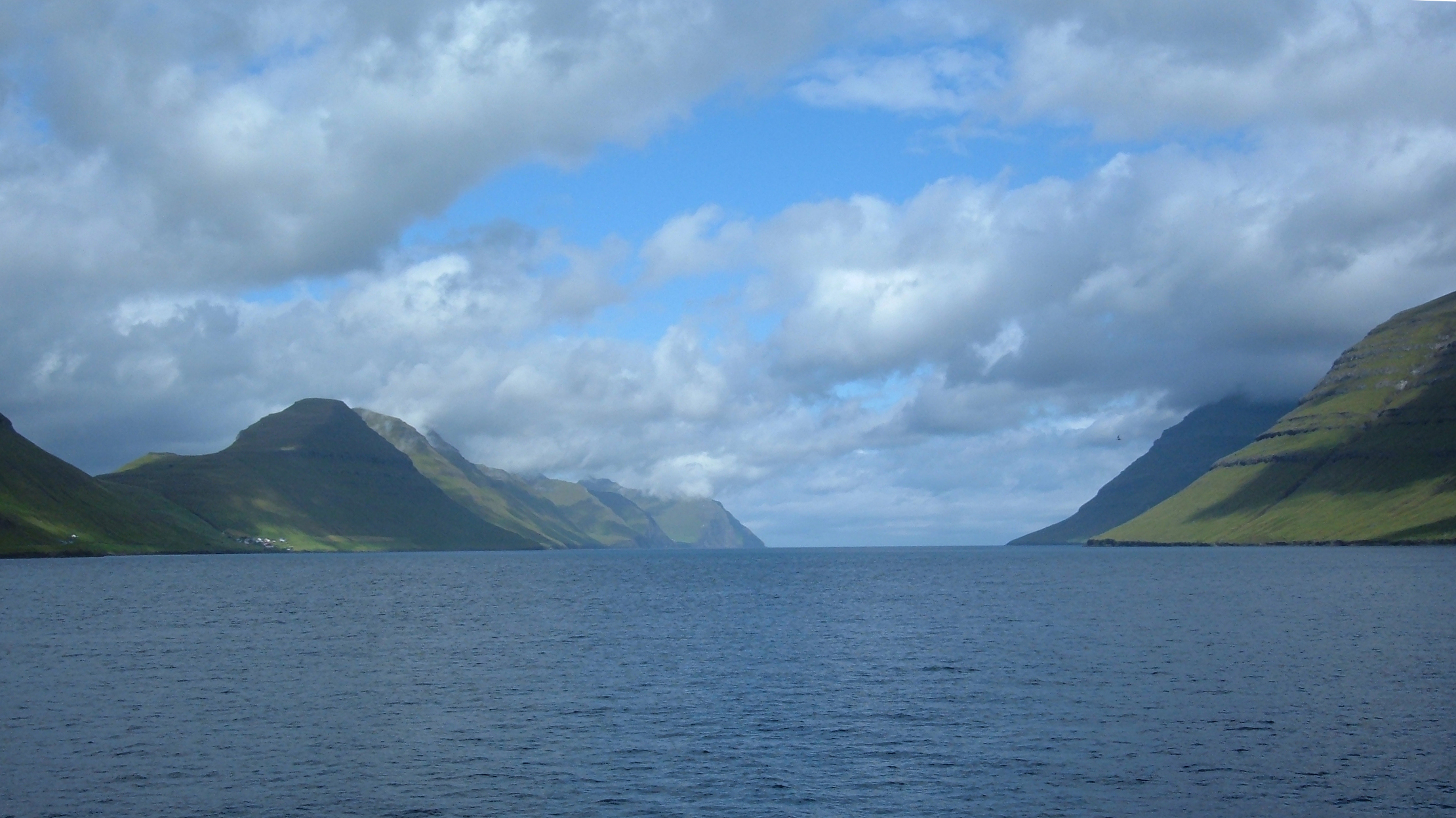 The Kalsoyarfjørður, Faroe Islands. The islands are Kalsoy (left) and Kunoy (right).